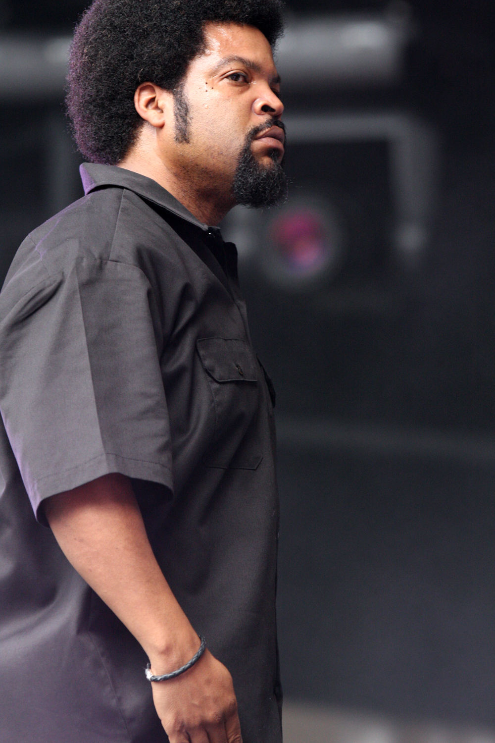 Ice Cube playing Supafest 2012, Sydney, Australia